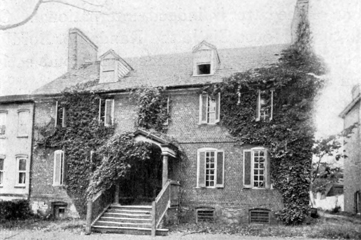 Peggy Stewart House, Annapolis, Maryland. Identifier: historictownsofsou00powe Title: Historic towns of the Southern States Year: 1904 (1900s) Authors: Powell, Lyman P. (Lyman Pierson), b. 1866 Subjects: Cities and towns Publisher: New York : G.P. Putnam's Sons Text Appearing Before Image: gG. We keep a Peggy Text Appearing After Image: ■-•■^22v^53!9P;5i^irr THE PEQQY STEWART HOUSE. Stewart Day, now, in Maryland, and some ofus like to remember that Peggy, too, was oncethe mistress of a breakfast-room which wasideal. At the foot of Duke-of-Gloucester Street, in1760, John Ridout built for himself and his chil